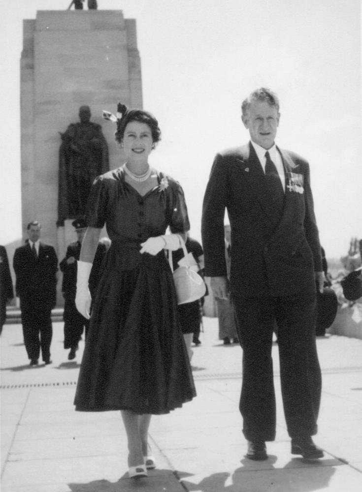 Sir Walter Jackson Cooper and Queen Elizabeth II, 1954.